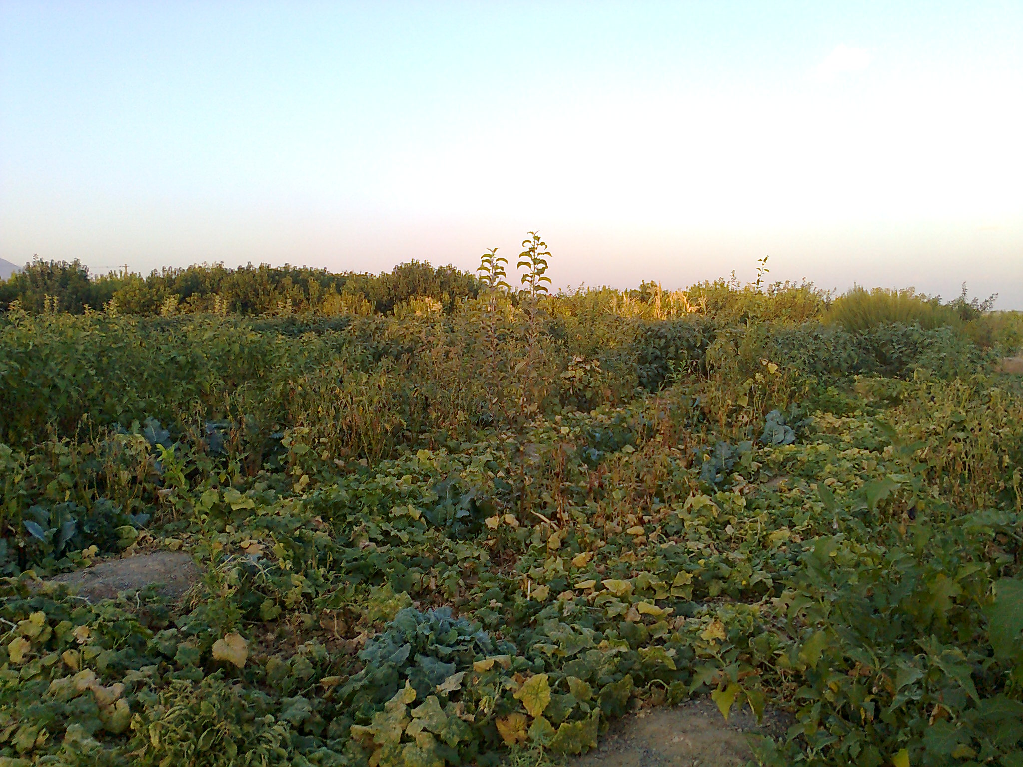 مزارع خیار و بادمجان